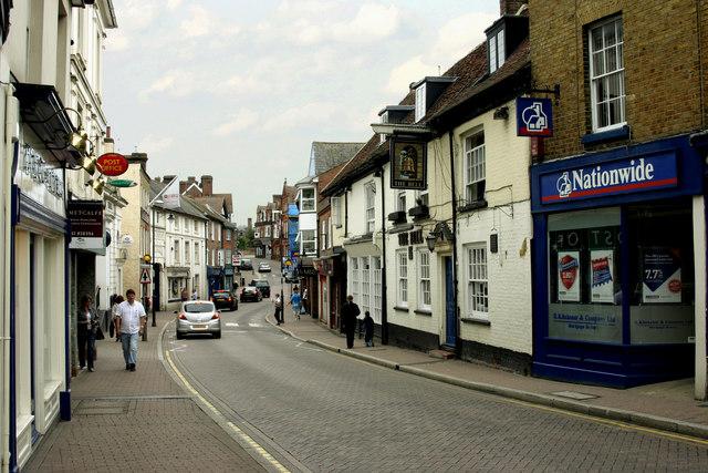 High Street, Tring